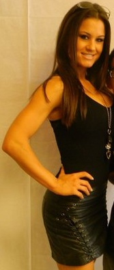 Brooke Adams, formerly of the WWE, now in TNA as Miss Tessmacher